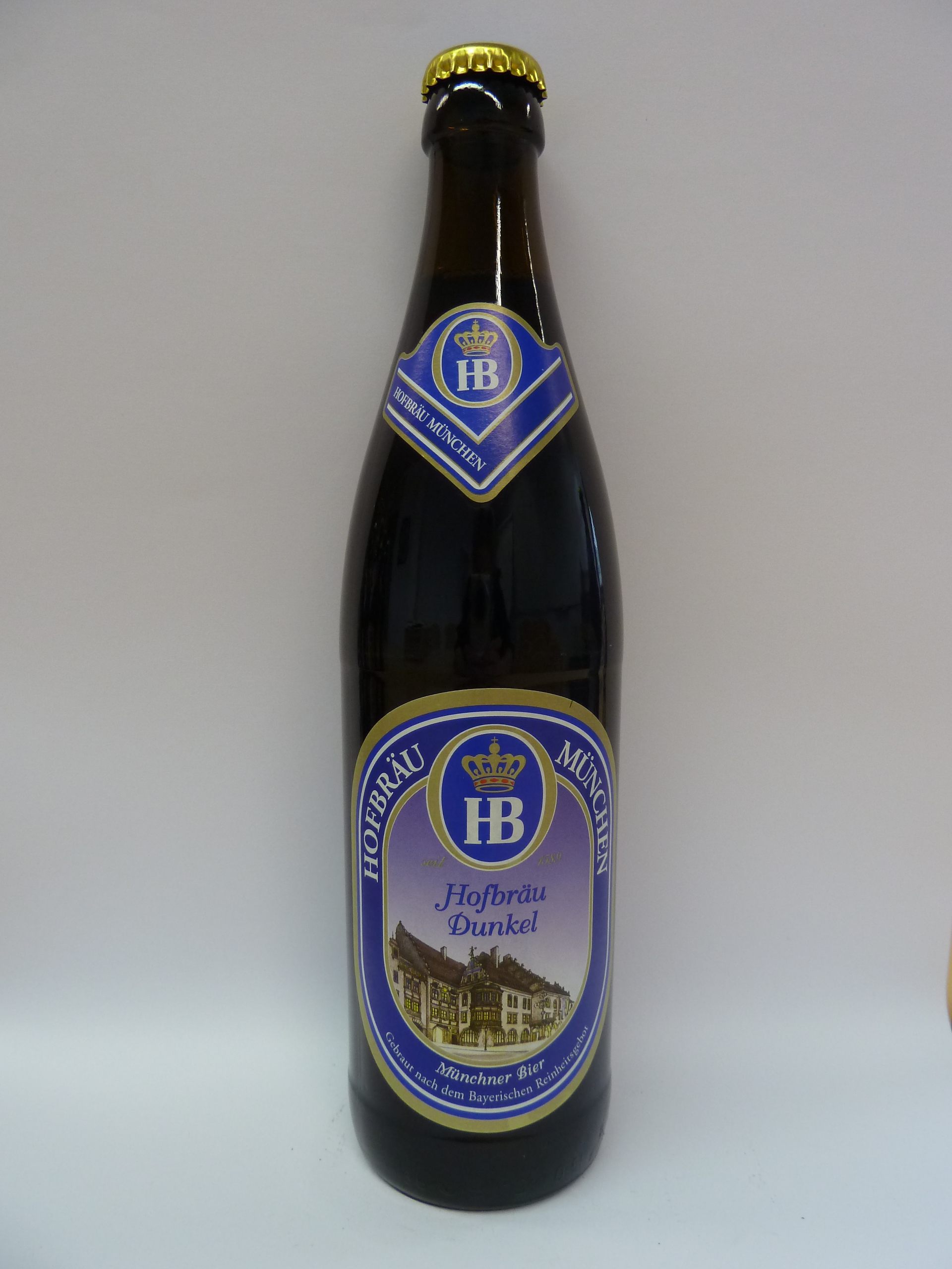 Hofbräu München beer: Hofbräu Dunkel